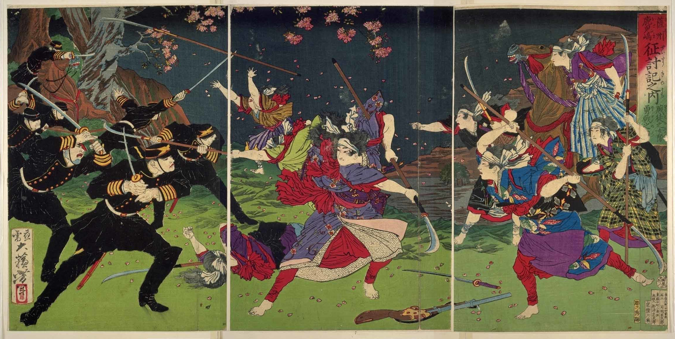 Chronicle of the Subjugation of Kagoshima in Satsuma